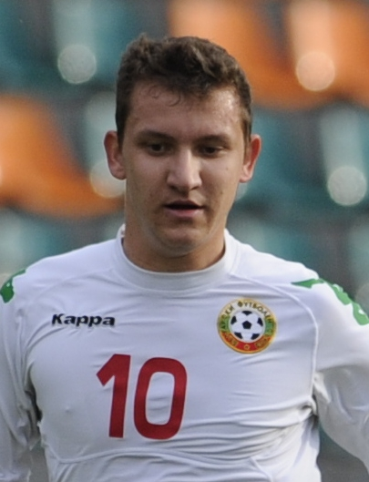 Todor Nedelev